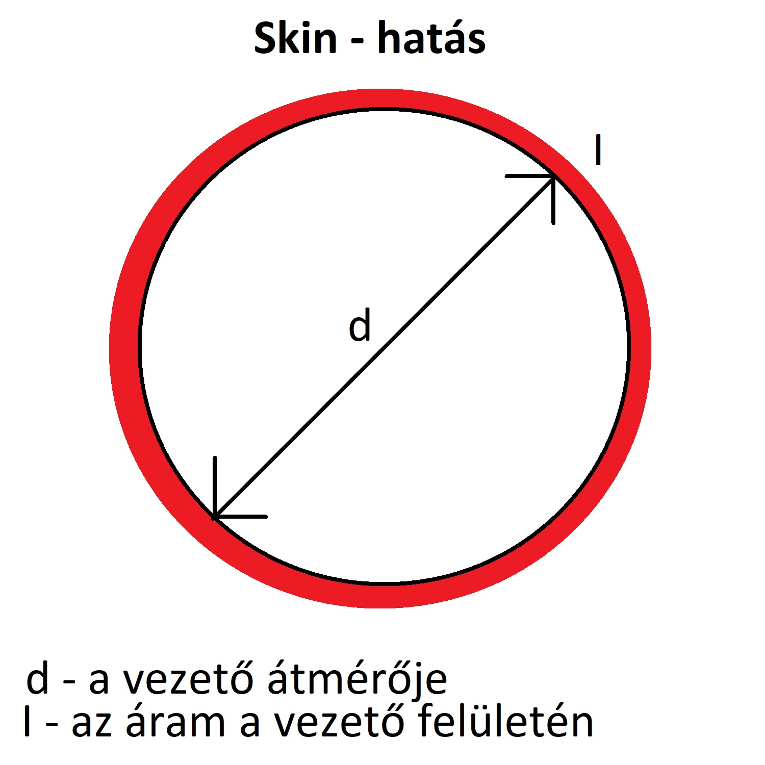 The skin effect